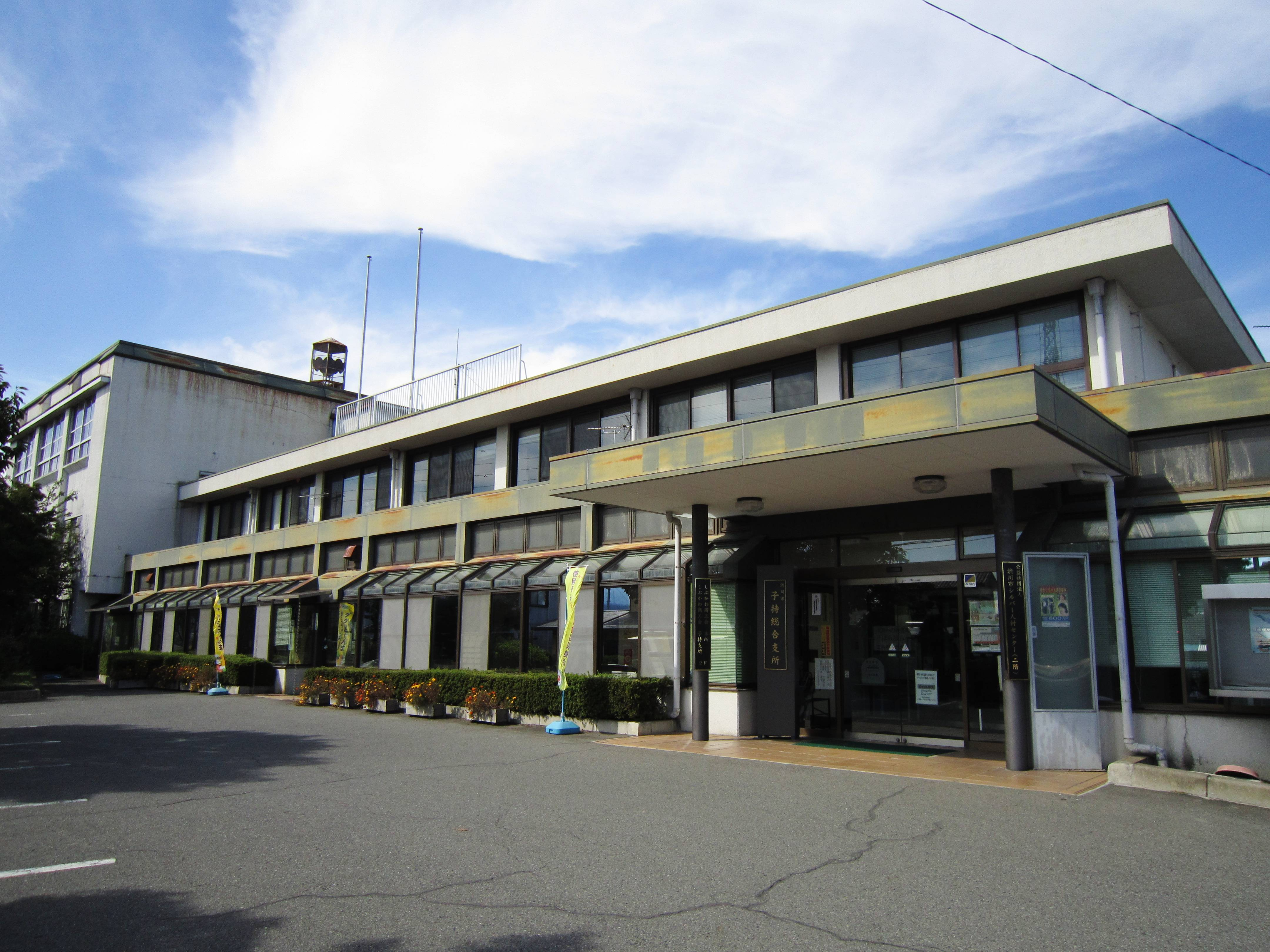 Shibukawa city Komochi branch office.